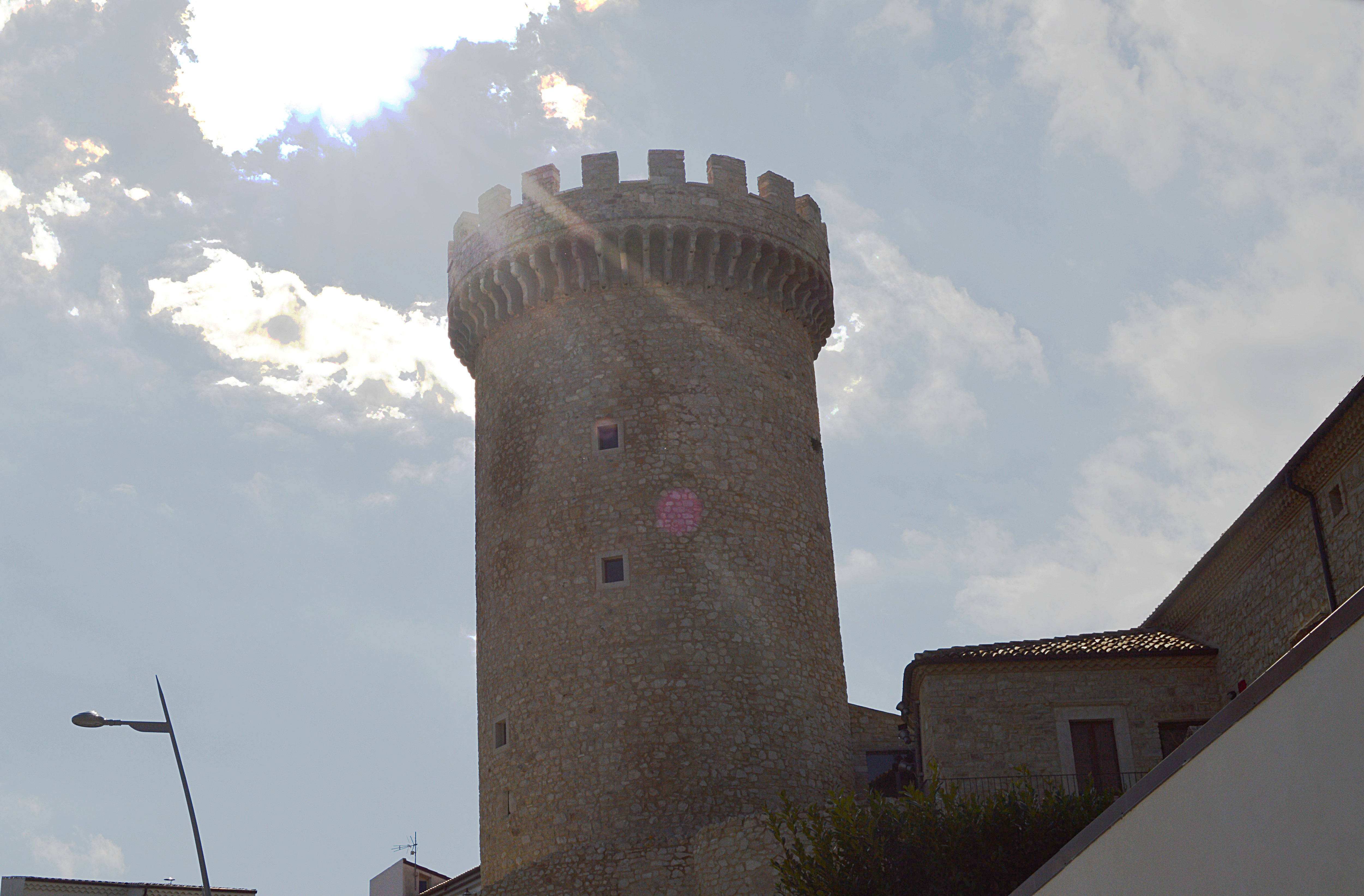 Angoina Tower in Colletorto,Molise,Italy